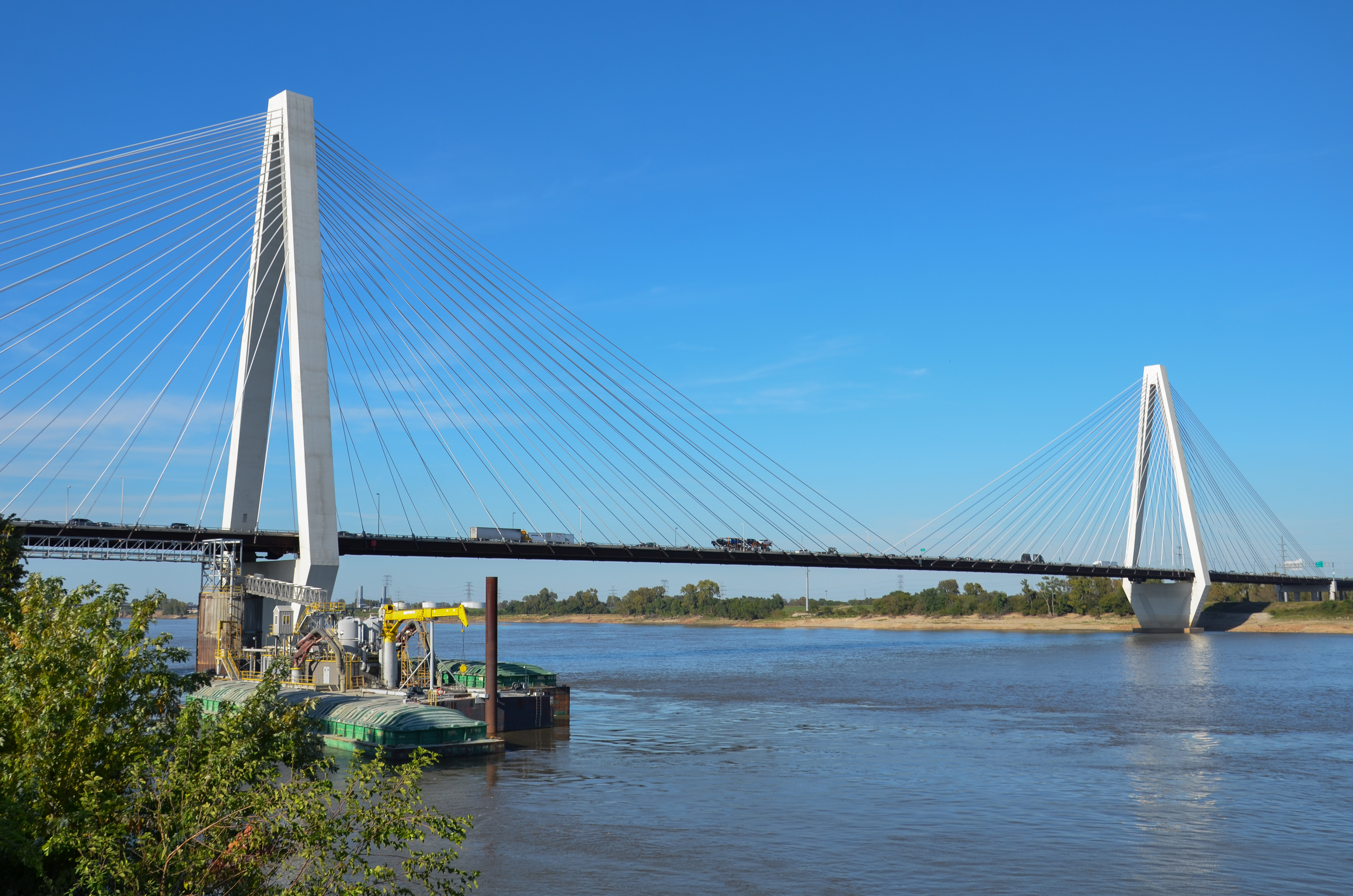 Stan Musial Veterans Memorial Bridge as seen from the western bank of the Mississippi River.